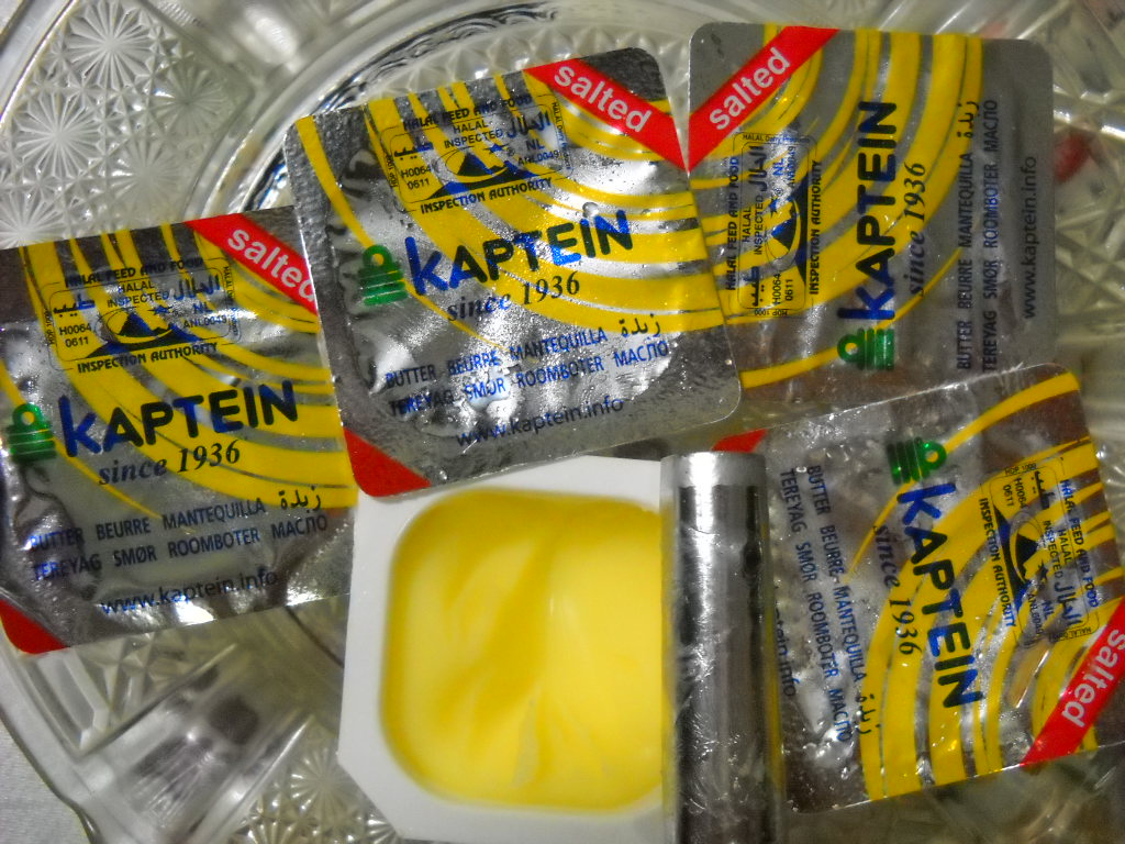 Kaptein salted butter